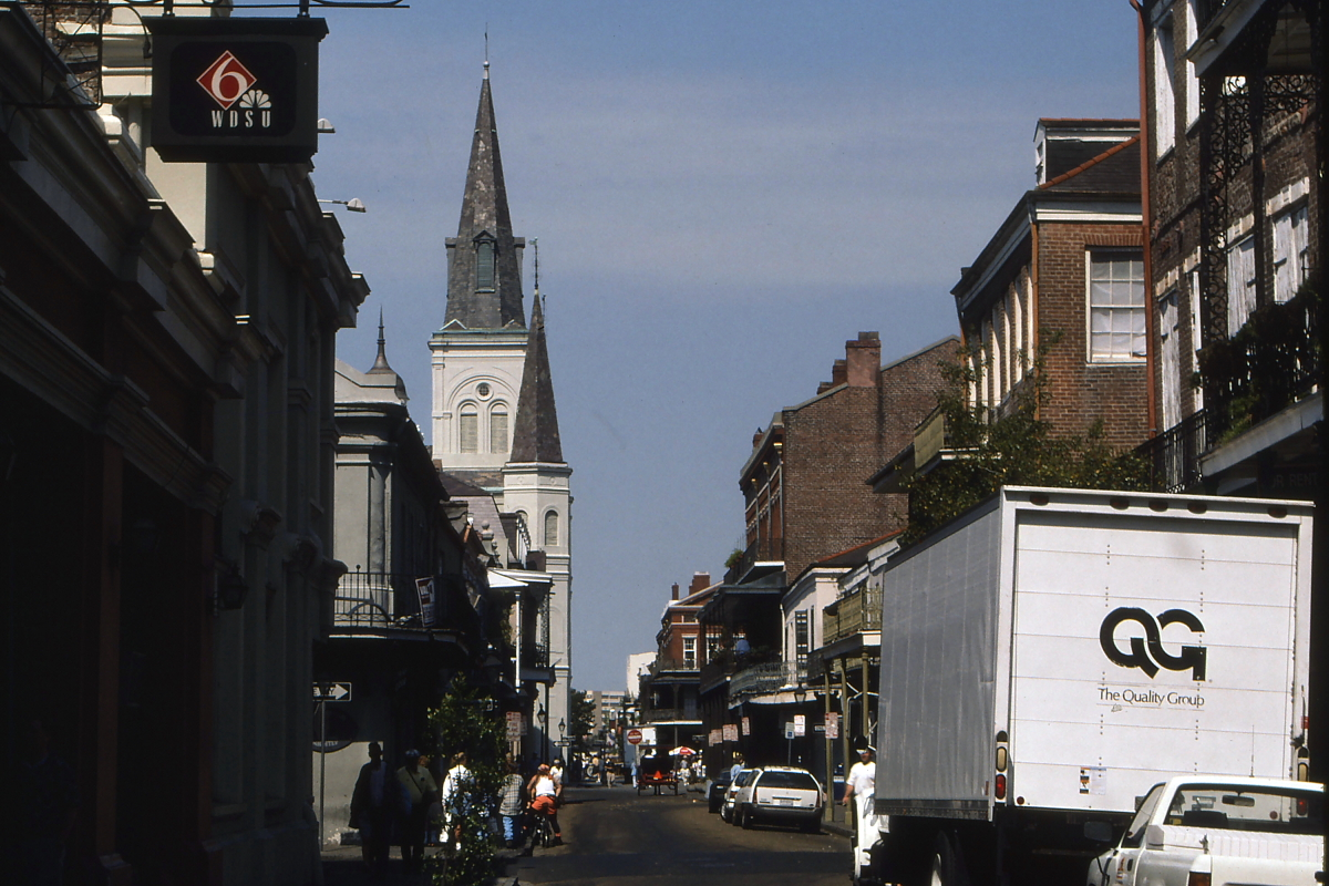 New Orleans, 1996: Chartres Street, looking down towards Jackson Square from in front of WDSU studio.